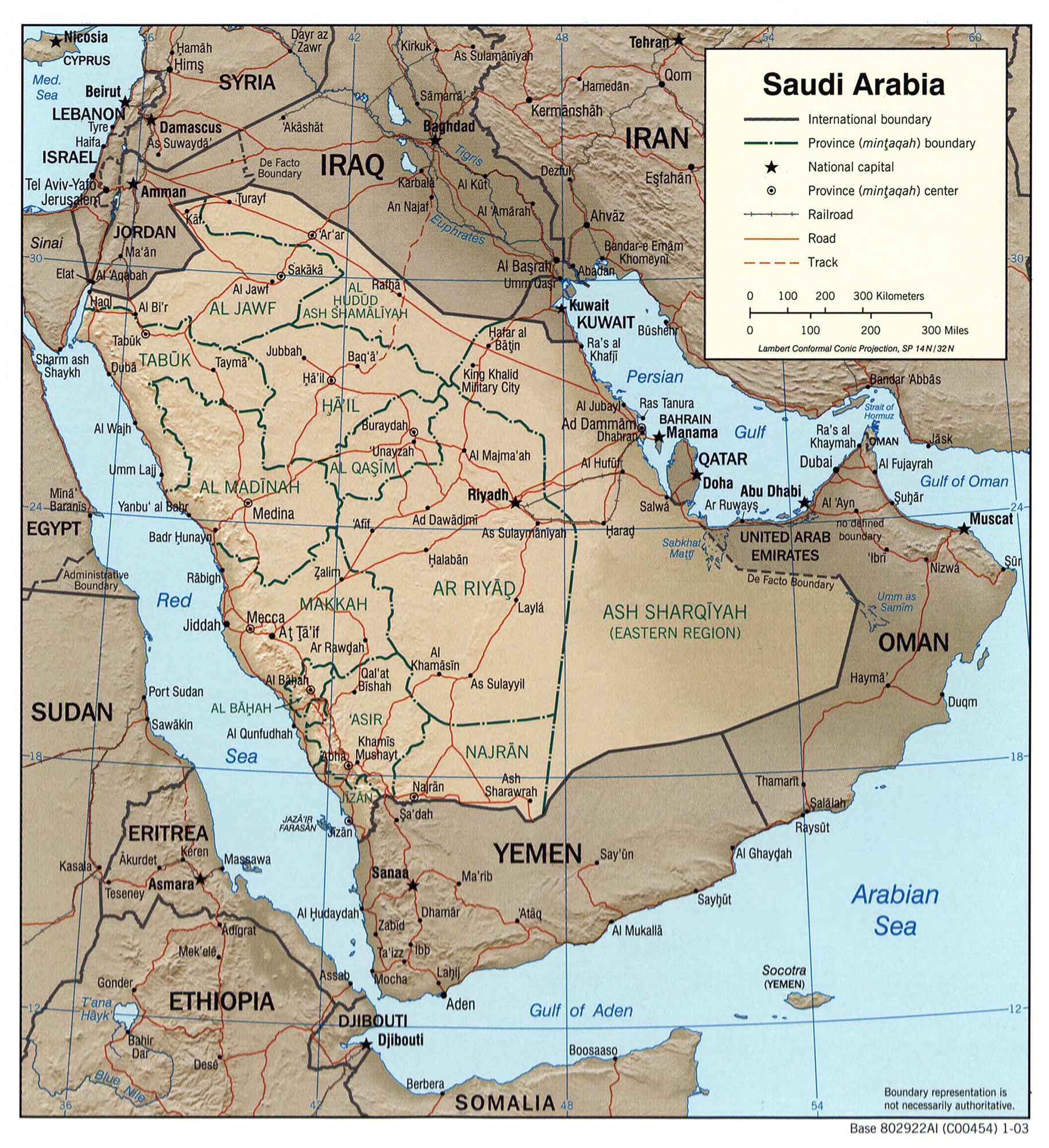 Saudi Arabia. "Base 802922AI (C00454) 1-03." Relief shown by shading. Scale [ca. 1:16,500,000] ; Lambert conformal conic proj., SP 14N/32N (E 360--E 600/N 300--N 120). MEDIUM: 1 map : col. ; 18 x 17 cm. CALL NUMBER: G7530 2003 .U51